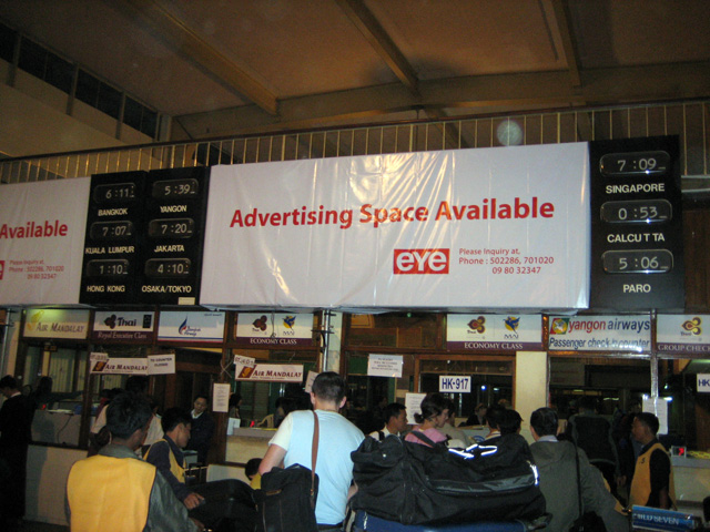 Departure hall of Yangon International Airport